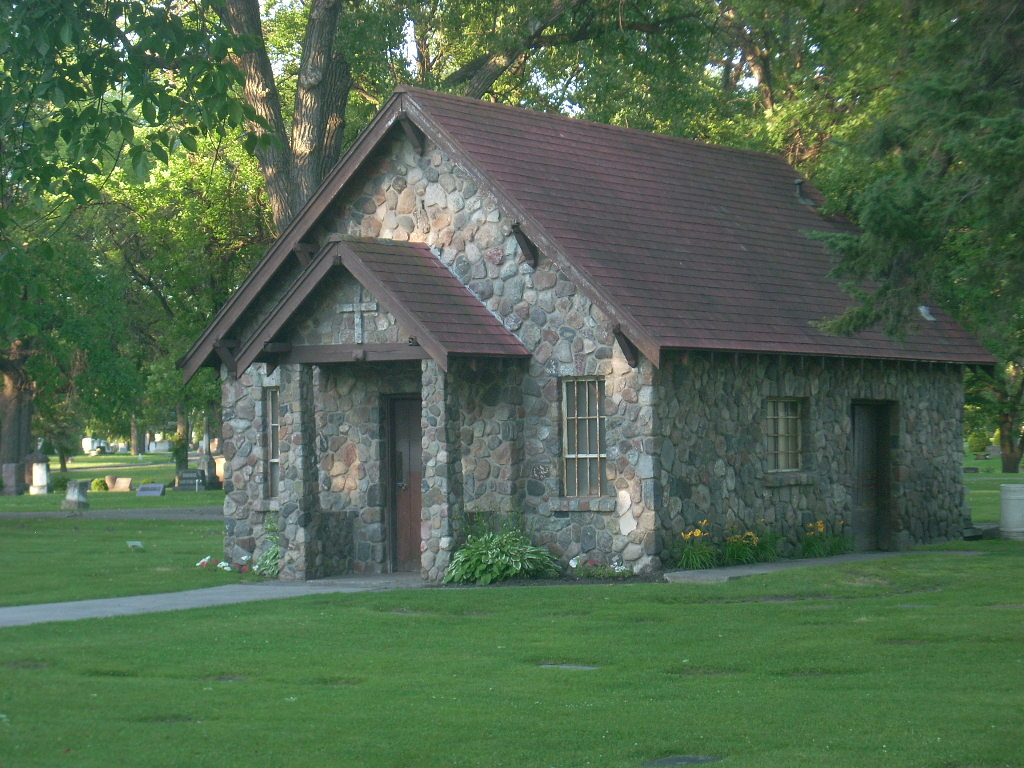 Stone Chapel in Grand Forks Memorial Park and Calvary Cemetary. It is listed on the National Register of Historic Places along with several other structures in the cemetary wich were built by the Works Progress Administration.